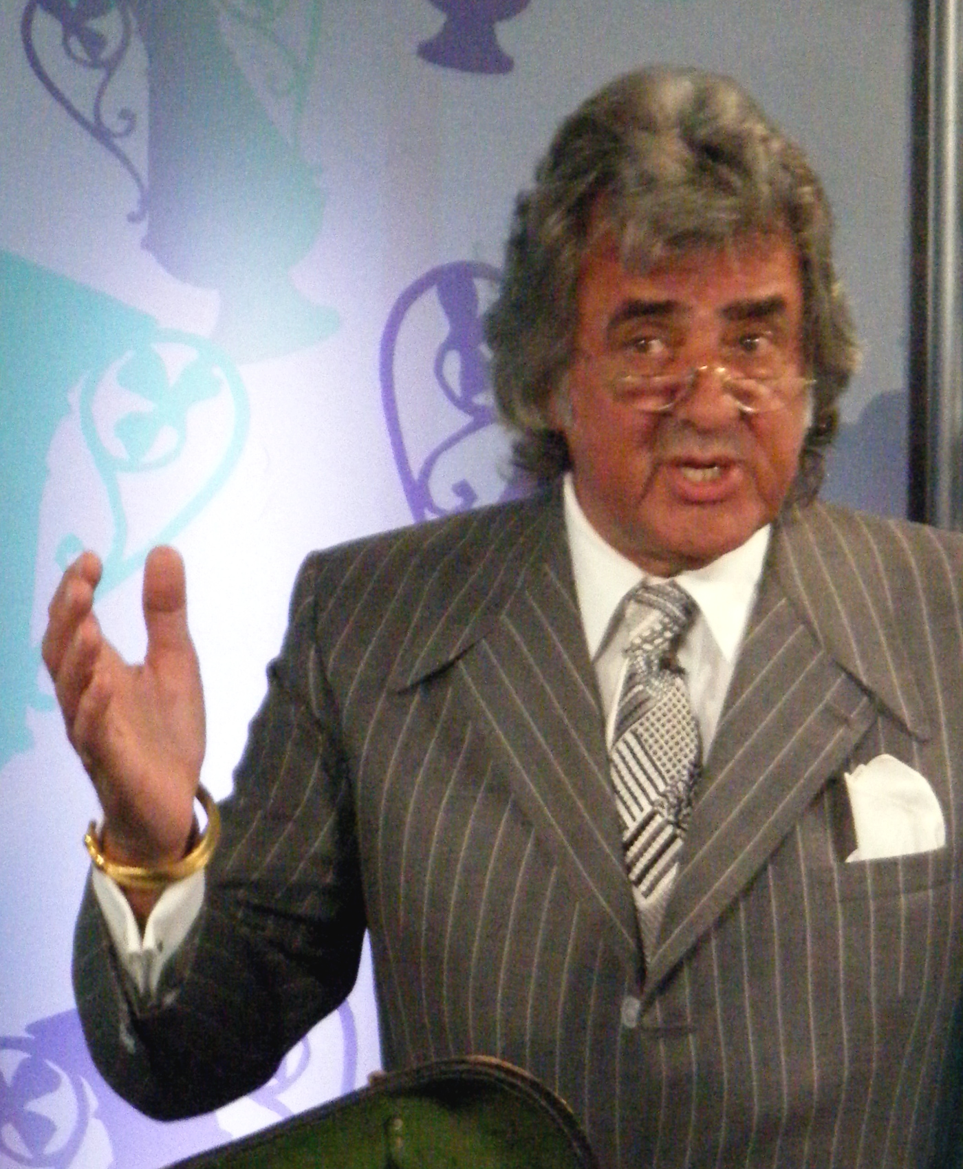 Crop of David Dickinson from picture of Dickinson's Real Deal 18. Levels adjusted.